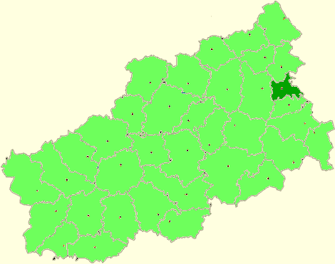 Tver Oblast map by Al Silonov